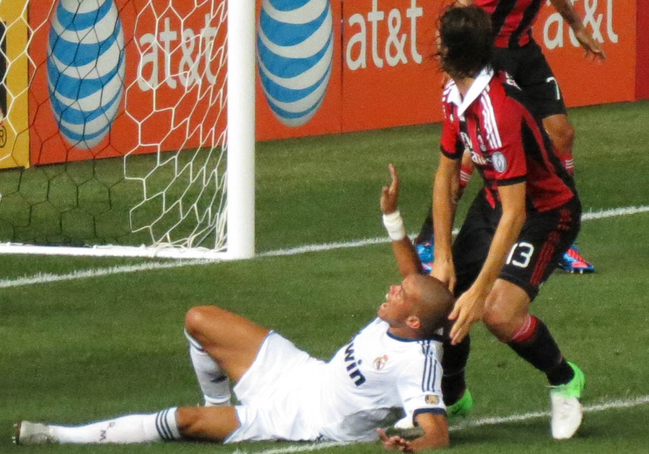 Francesco Acerbi of A.C. Milan in action for A.C. Milan against Real Madrid – Francesco Acerbi challenging/takling Real Madrid's Pepe in the 2012 World Football Challenge.